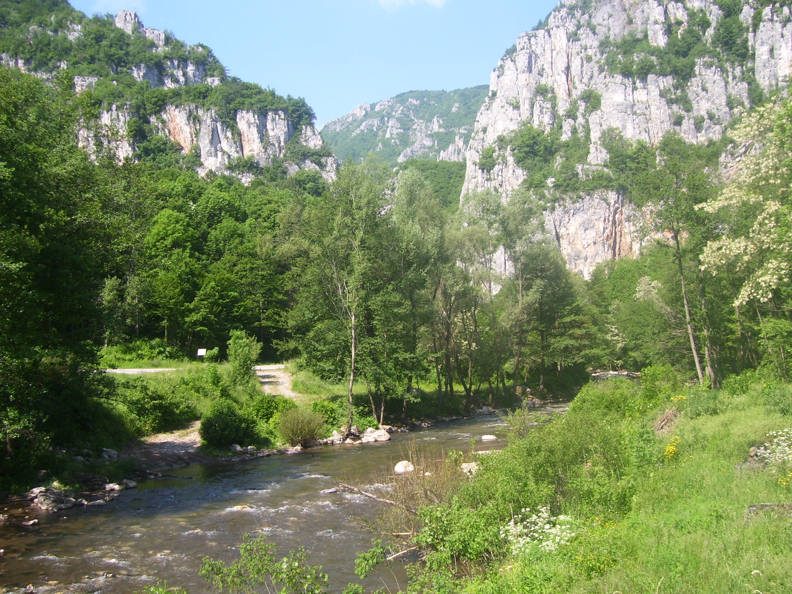 Erma at Poganovo monastery.